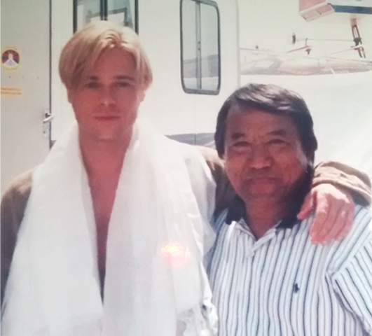 Losang Thonden with International Super Star Brad Pitt on the set of "Seven Years In Tibet"